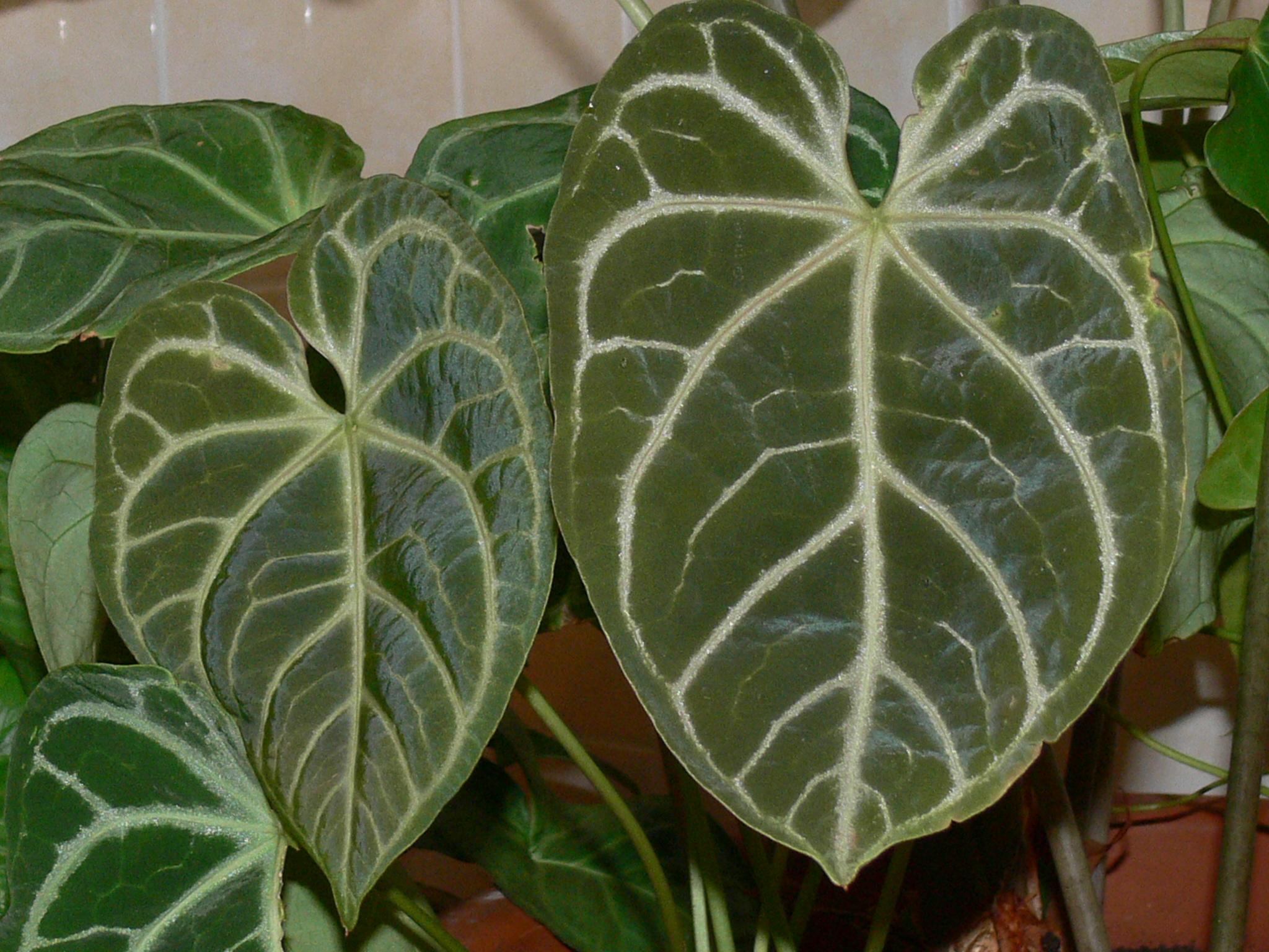 Anthurium crystallinum